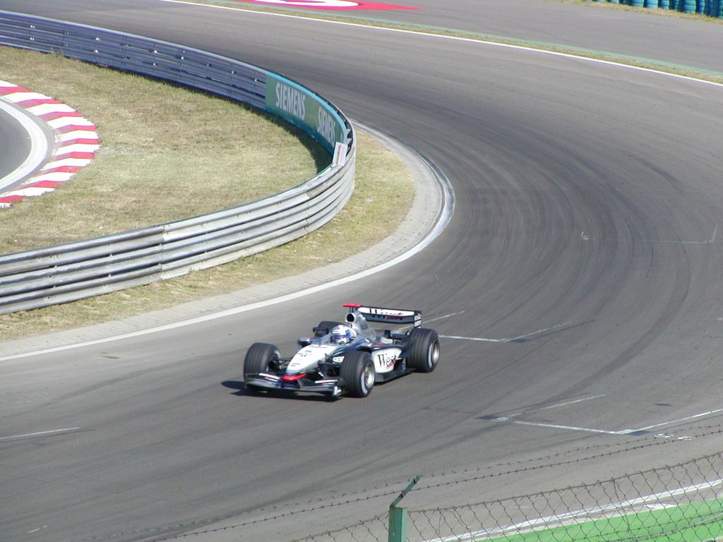 David Coulthard (McLaren) in the last corner at the 2003 Hungarian Grand Prix.